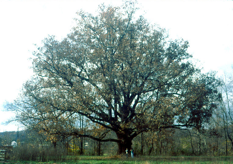 White oak tree in Ohio